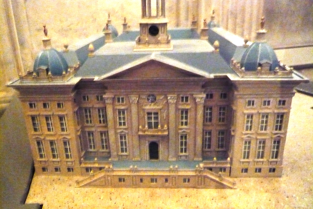 Royal Palace of Amsterdam Model of New city hall on Dam square by Philip Vingboons